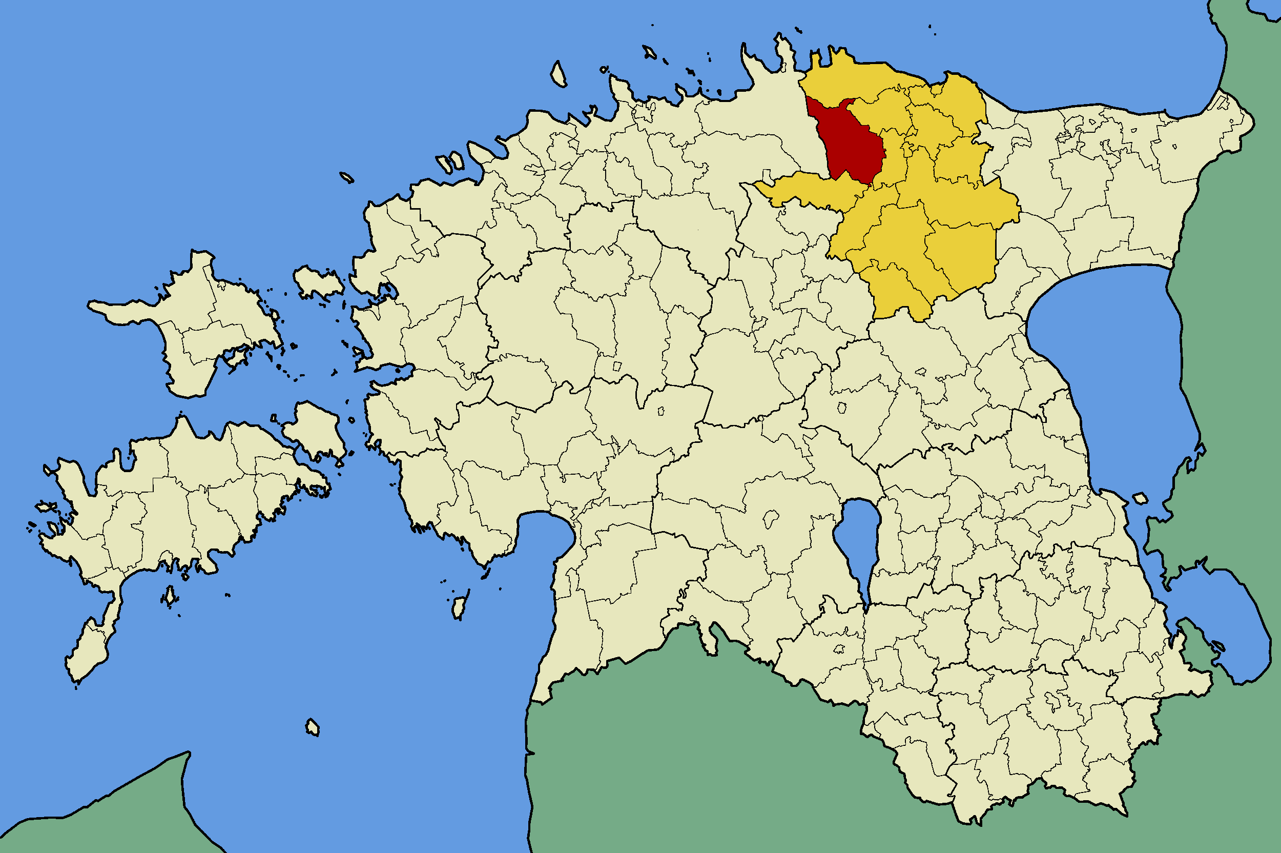 Map of Estonia with borders of municipalities (parishes). Lääne-Viru county and Kadrina municipality emphasized.